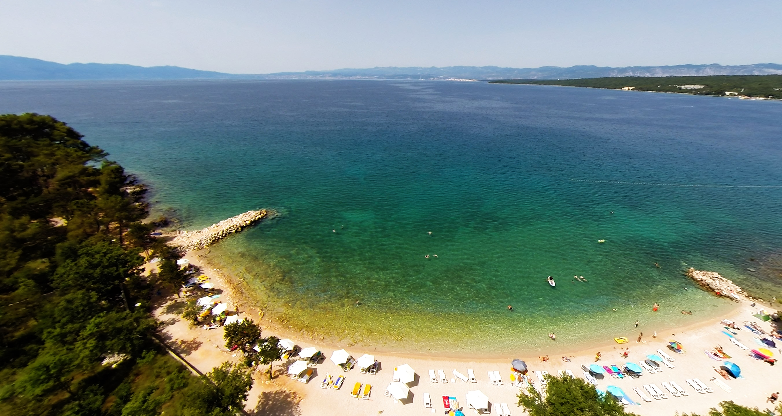 Rova Beach from the air.